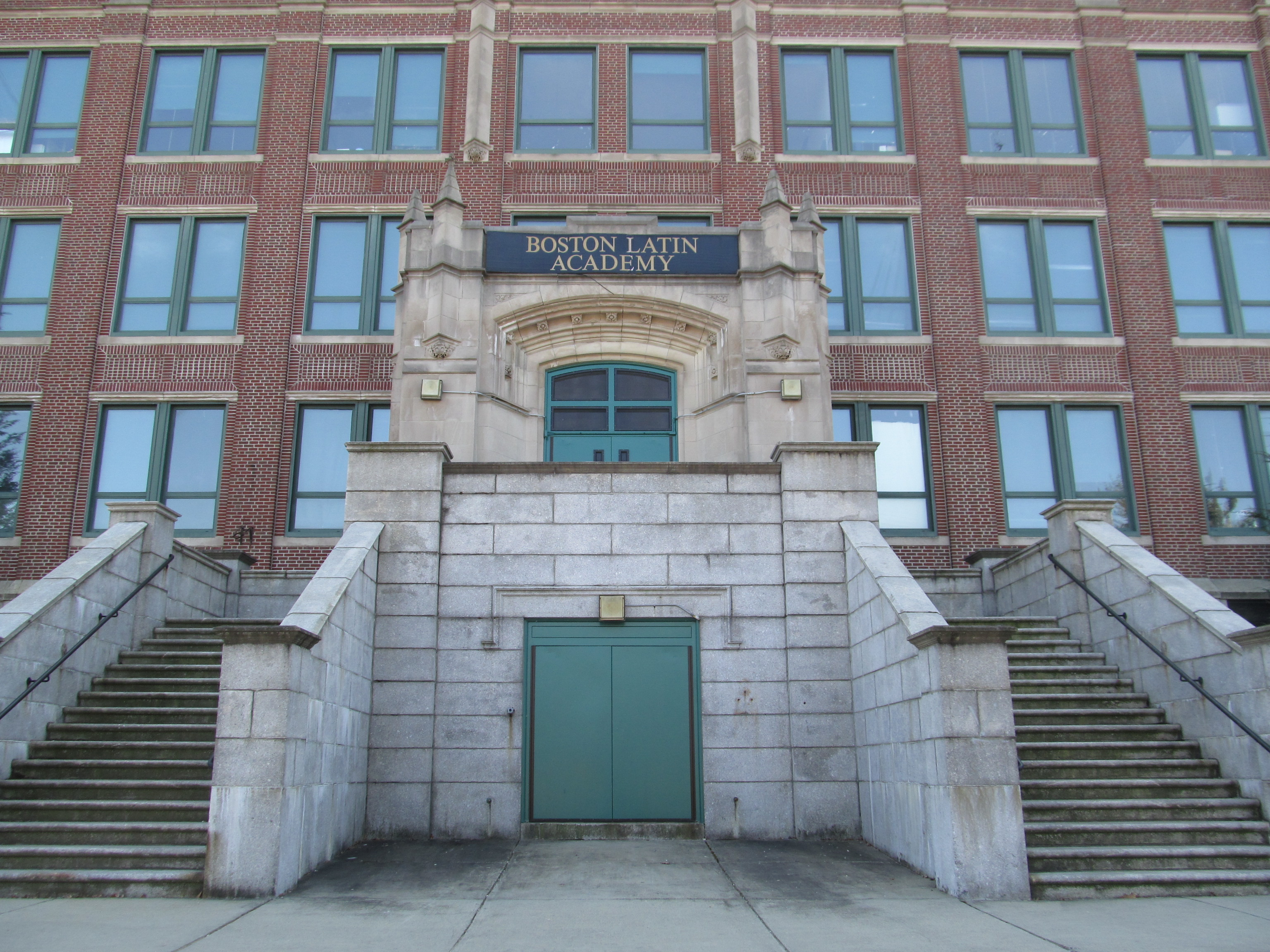 Boston Latin Academy, Boston Massachusetts